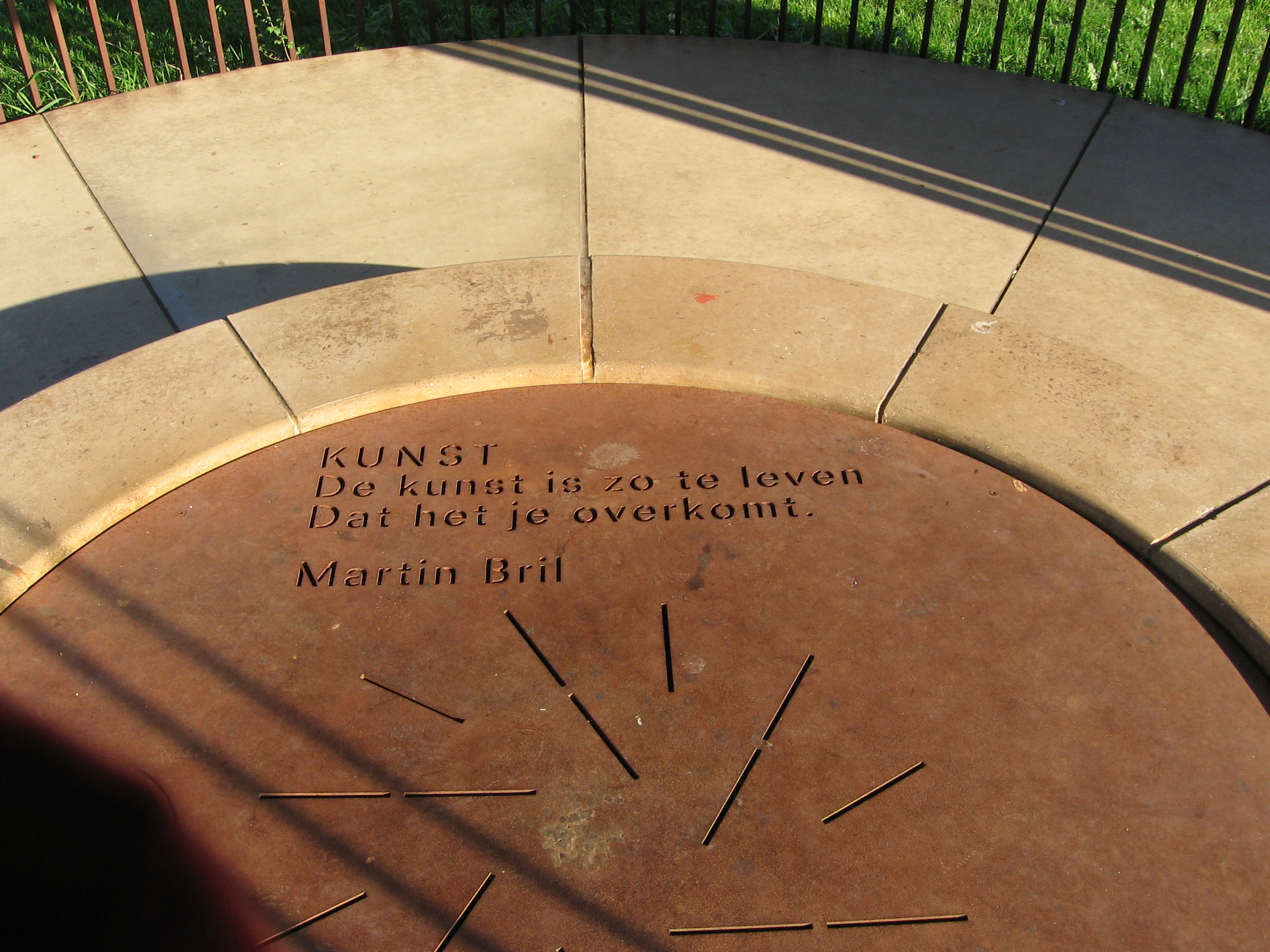 Martin Bril Pavilion, 2015, designed by Carve NL and Karel Martens, Kanaleneiland Utrecht